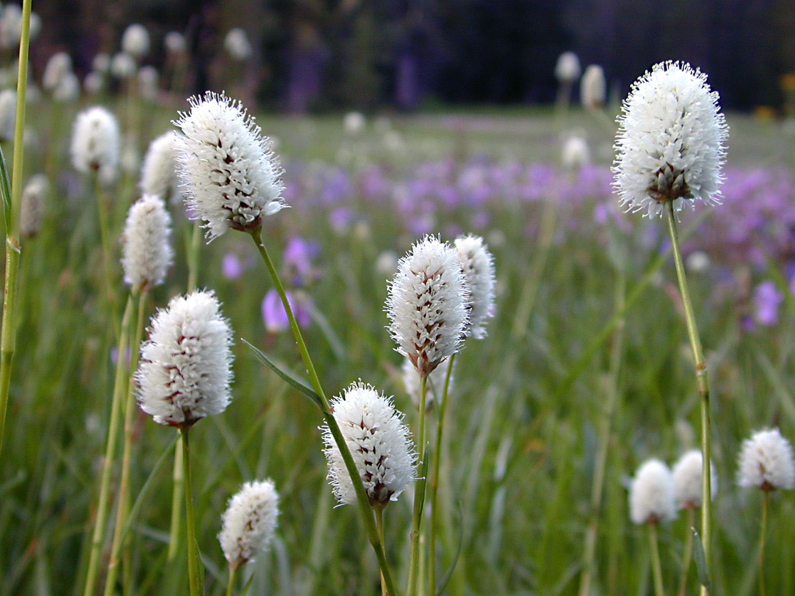 Western bistort (Bistorta bistortoides), along the Glacier Point Road. Yosemite National Park. This meadow was covered with snow when i was here 6 weeks ago but now its covered with spring flowers, in July. (Jepson), (Geotagged +/- 1 mile)